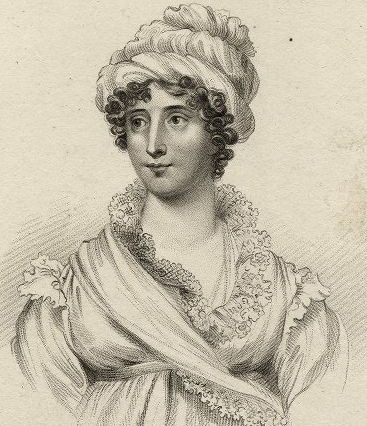 Collection: Folger Shakespeare Library Digital Image Collection Collection Folger Shakespeare Library Digital Image Collection Collection Source Creator: Hopwood, James, b. 1795, printmaker. Author Hopwood, James, b. 1795, printmaker. Source Creator Source Title: Mrs. Elizabeth Inchbald [graphic] / painted by Miss Rose Emma Drummond ; engraved by J. Hopwood junr. CD_Title Mrs. Elizabeth Inchbald [graphic] / painted by Miss Rose Emma Drummond ; engraved by J. Hopwood junr. Source Title Source Created or Published: [London] : Dean & Munday, Threadneedle Street, June 1, 1819. Imprint [London] : Dean & Munday, Threadneedle Street, June 1, 1819. Source Created or Published Source Call Number: ART File I37 no.6 Call_Number ART File I37 no.6 Source Call Number Digital Image File Name: 8945 ROOTFILE 8945 Digital Image File Name Digital Image Type: FSL collection Image_Type FSL collection Digital Image Type Hamnet Bib ID: 255541 Bibrecord001 255541 Hamnet Bib ID Hamnet Holdings ID: 336880